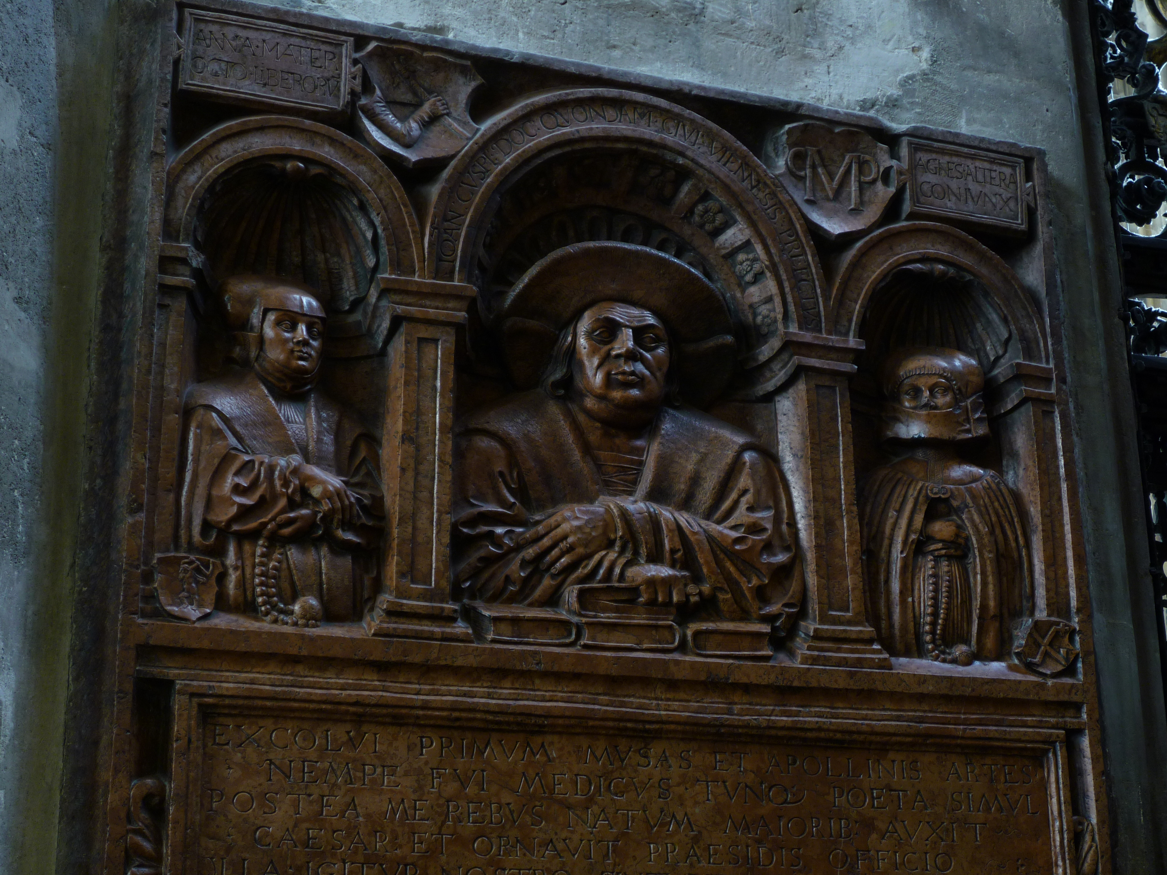 Cuspinian's epitaph in St. Stephen's Cathedral, Vienna